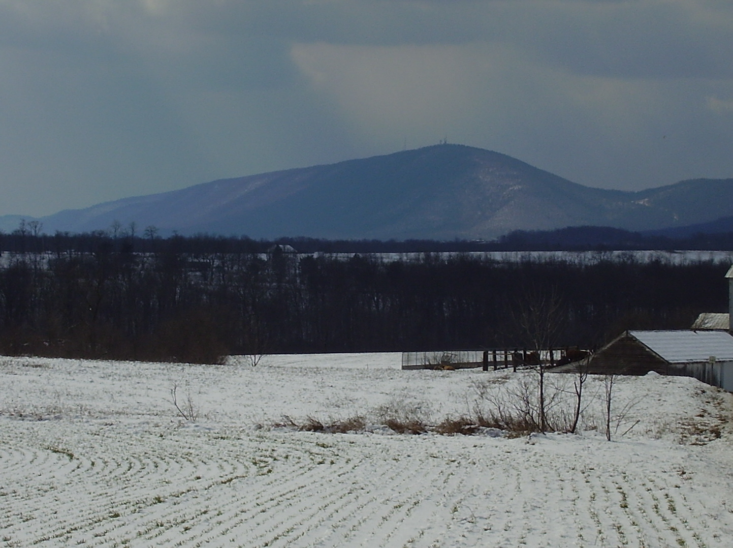 Clarks Knob from Newburg, Pennsylvania. by: Joe Calzarette